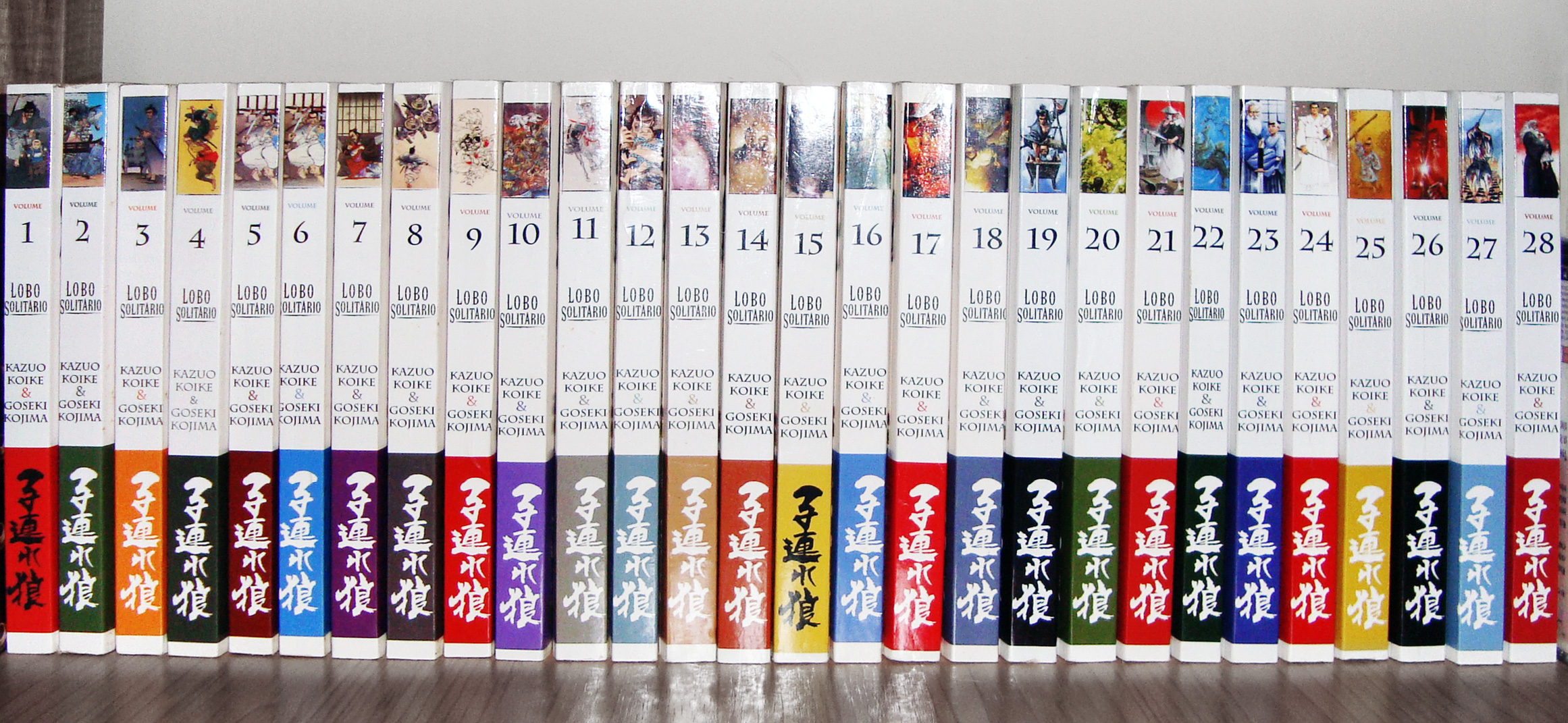 My complete collection of Lone Wolf and Cub mangas.